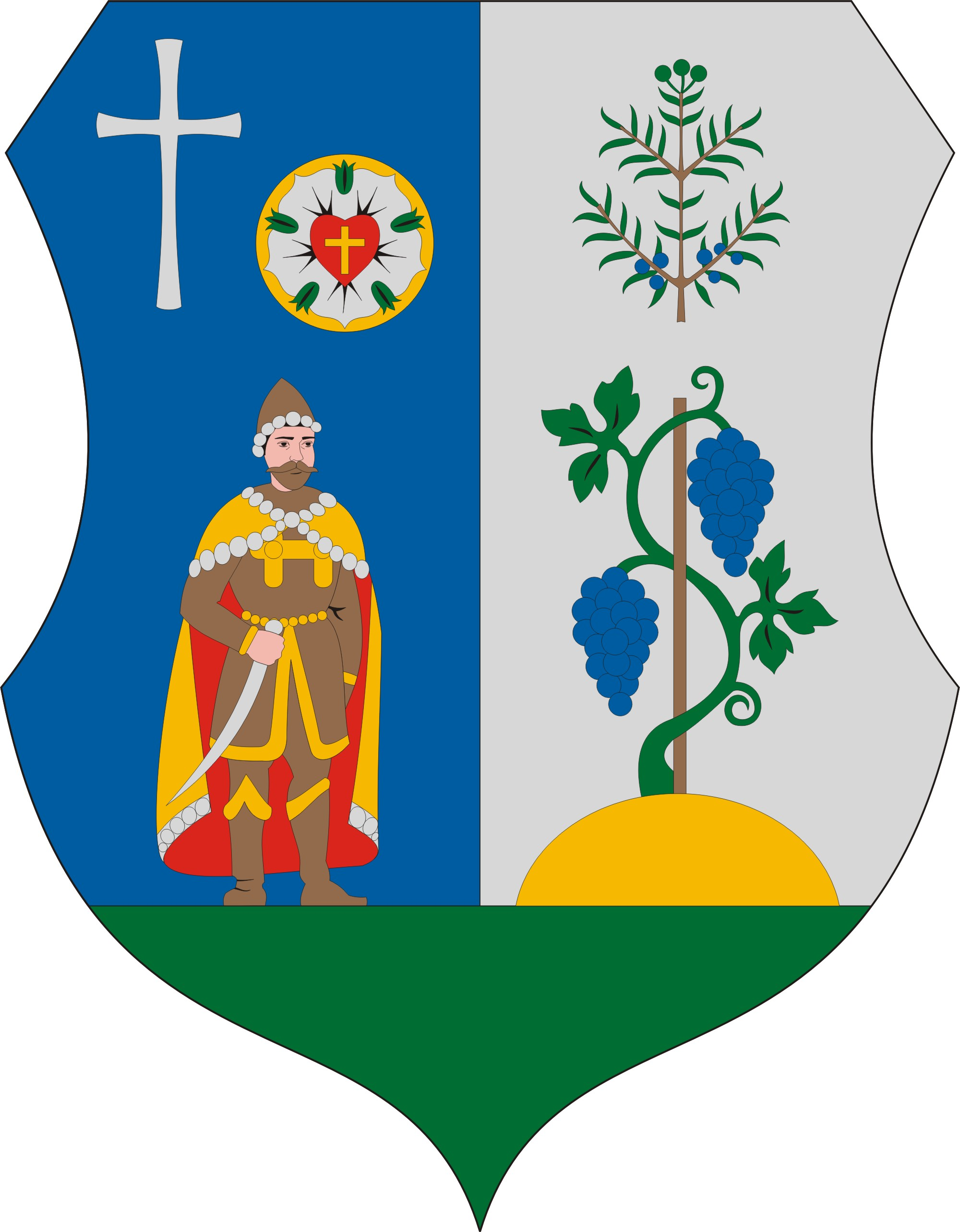 Coat of arms of Kaskantyú, Hungary